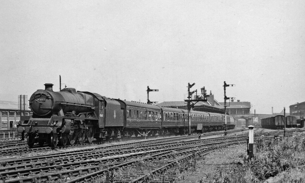 Up 'Devonian' express leaving Burton-upon-Trent. View NE to Burton Station, on the ex-Midland Derby - Birmingham main line, the Goods lines being on the right. The 'Devonian' (09.45 Bradford Forster Square to Kingwear) is headed by LMS 'Jubilee' 6P 4-6-0 No. 45663 'Jervis'. Think this should be down ED